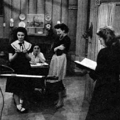 Photo of a rehearsal for the television program Lux Video Theatre. Pictured from left are Margaret O'Brien, Pat Gaye, Anna Lee and script girl Audrey Peters.